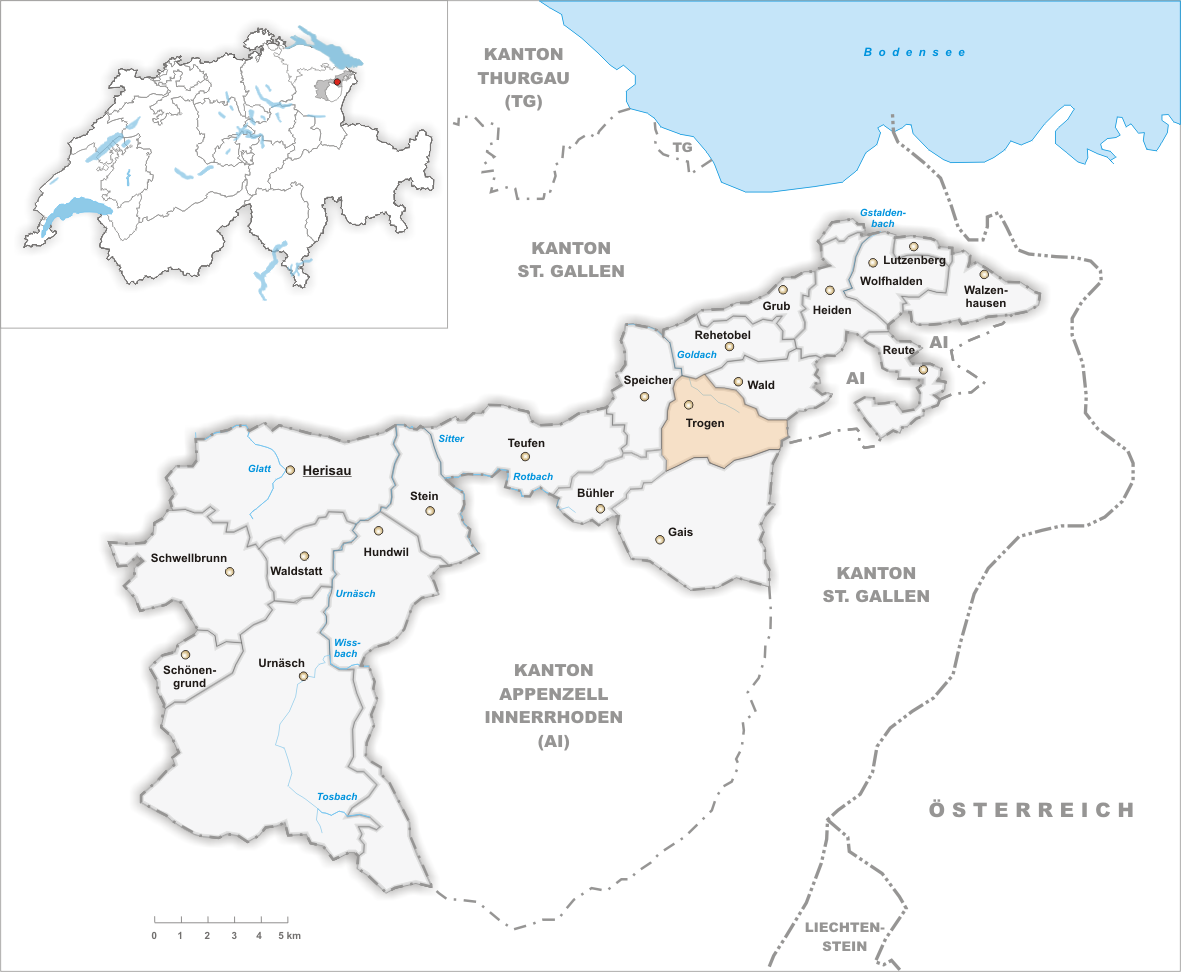 Municipality of Trogen